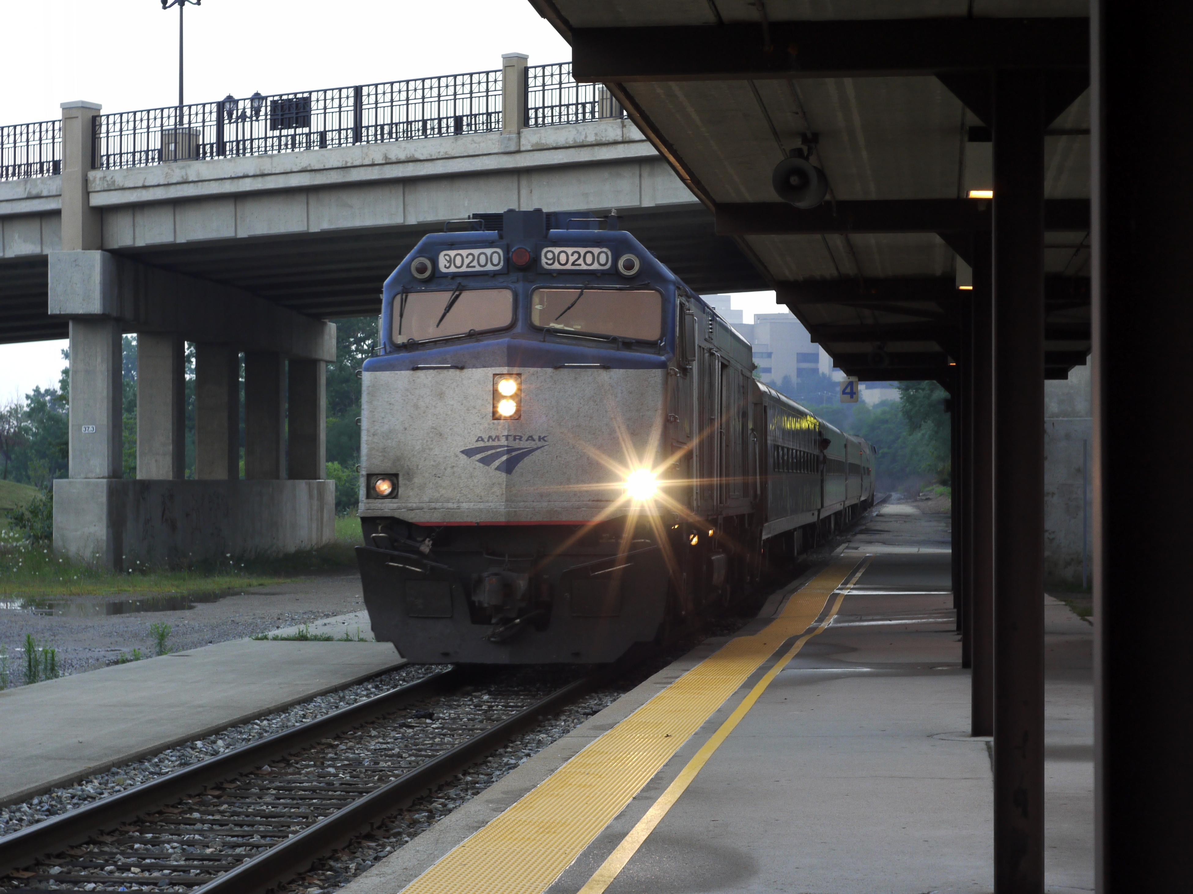 Amtrak arrival in Ann Arbor, Michigan.